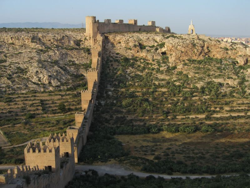 Muralla de Almería, Spain.